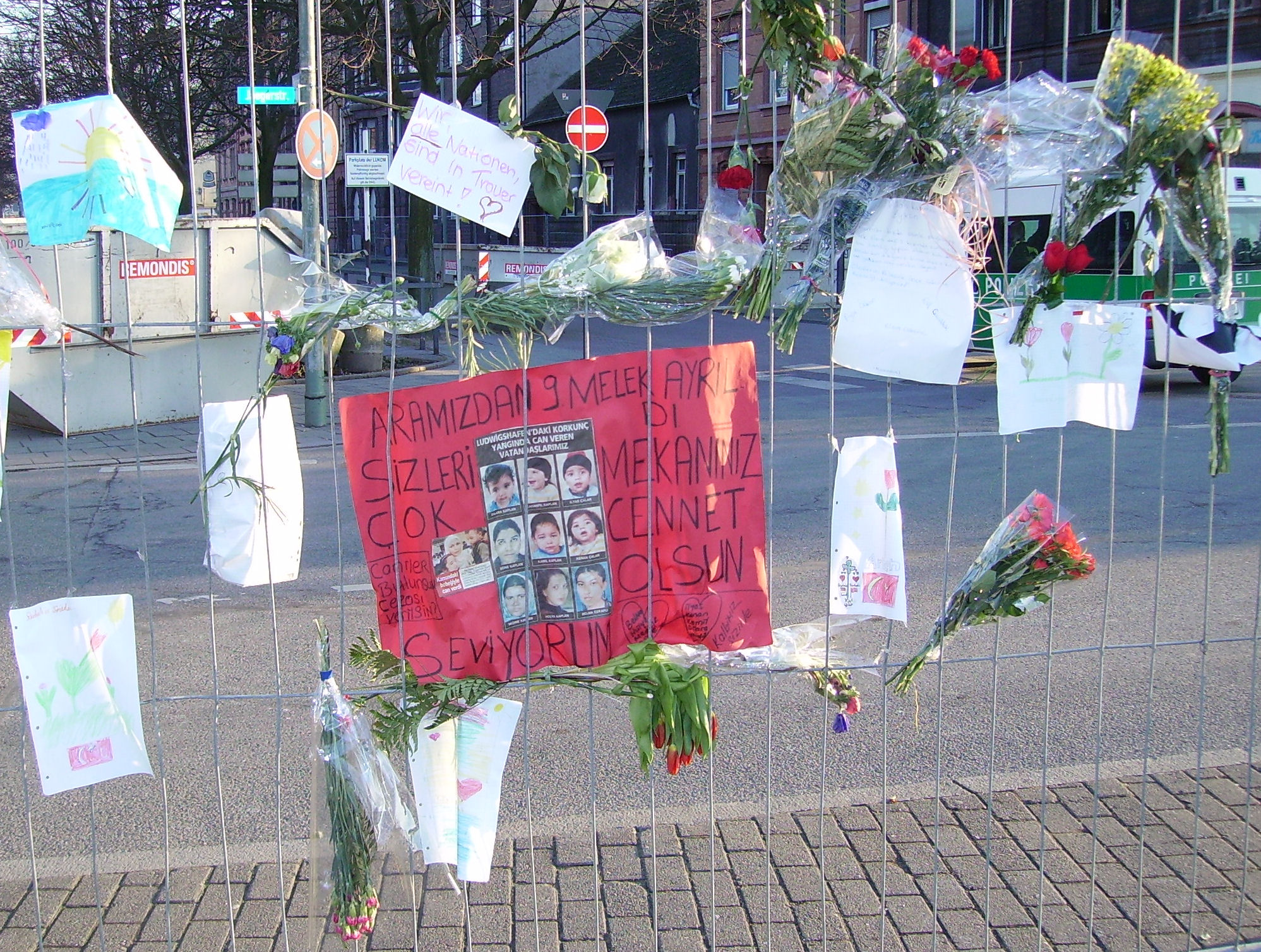 ruin of the burnt house in Ludwigshafen, Germany (February 2008)